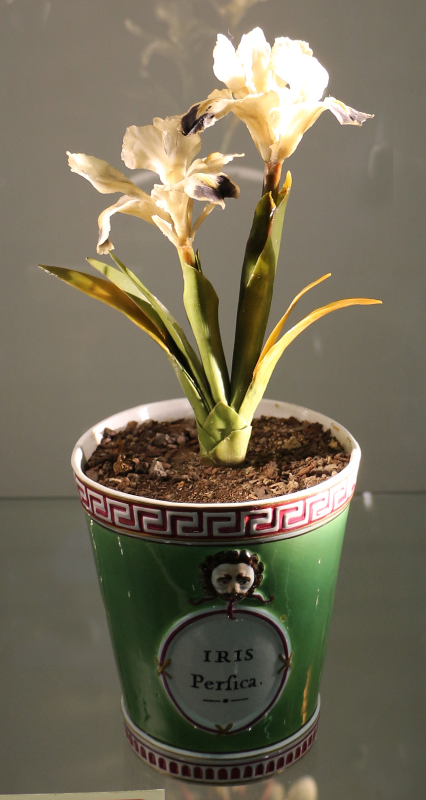 Museo di storia naturale (Florence) - Botany section - Wax models